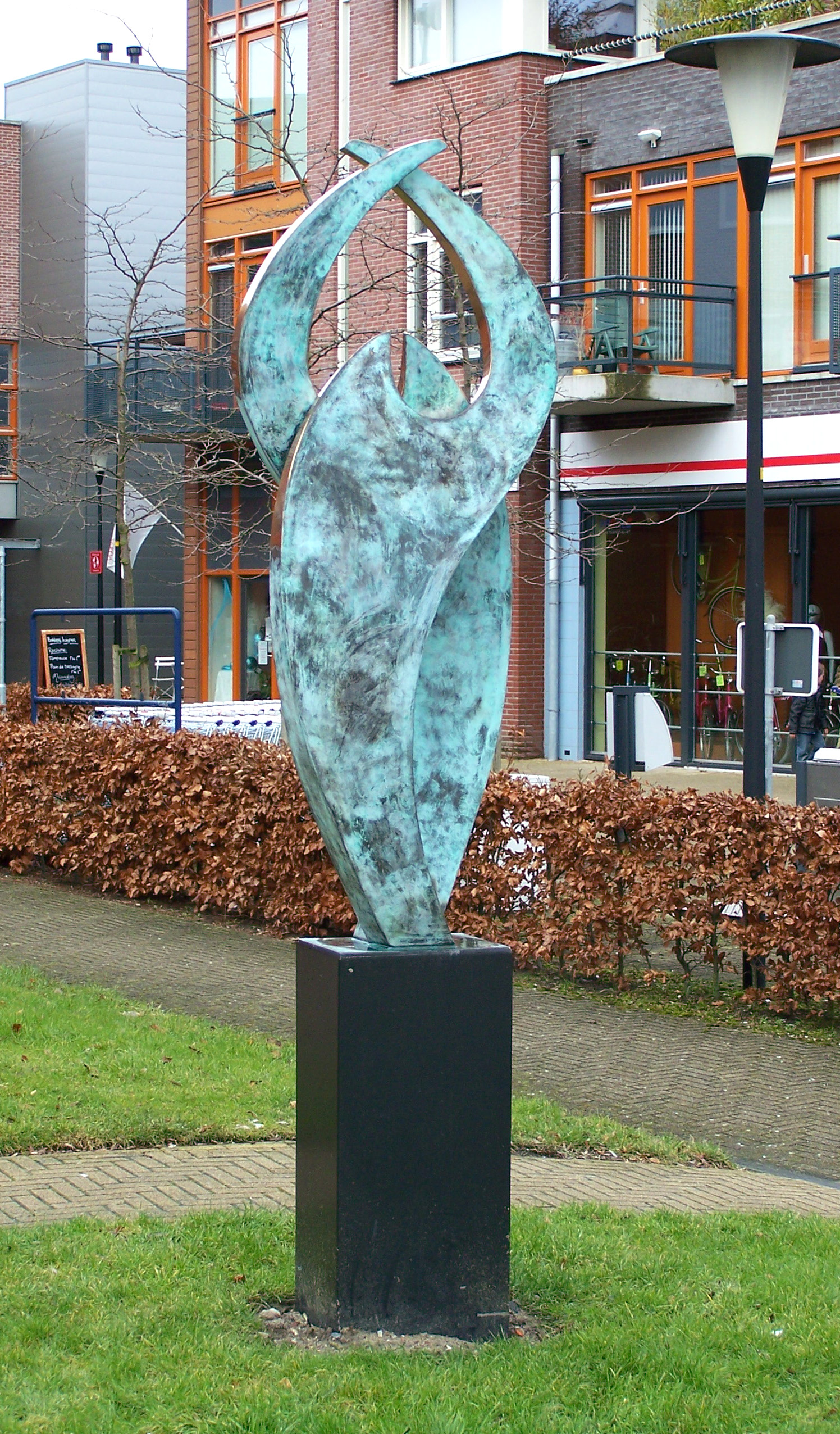 Sculpture "Dubbelvorm" md by John Spek in 2005 and placed at the Burgemeester de Nijsplein in Obdam.